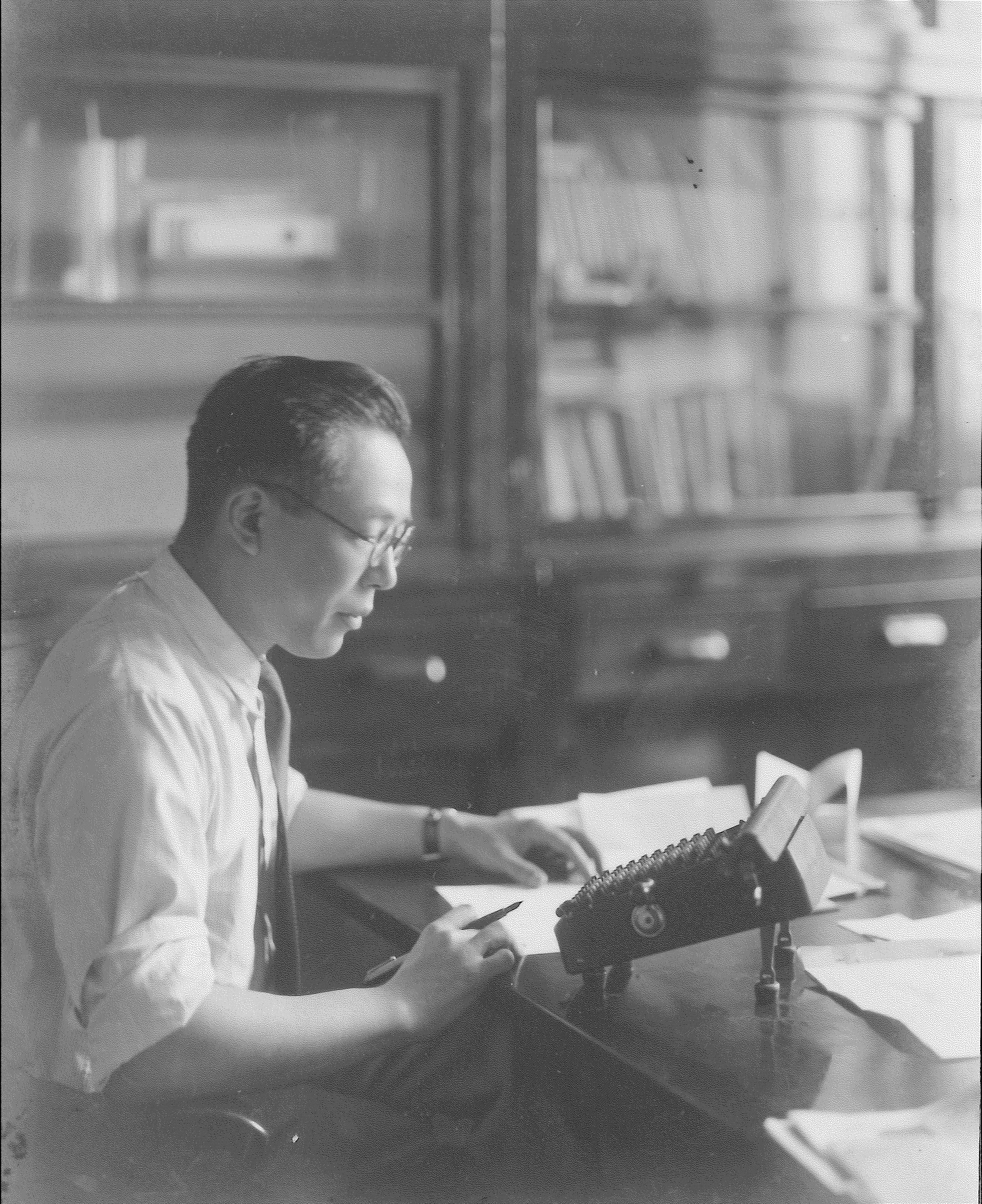 A photo of Dr. I. Nitta taken in his office in 1938.